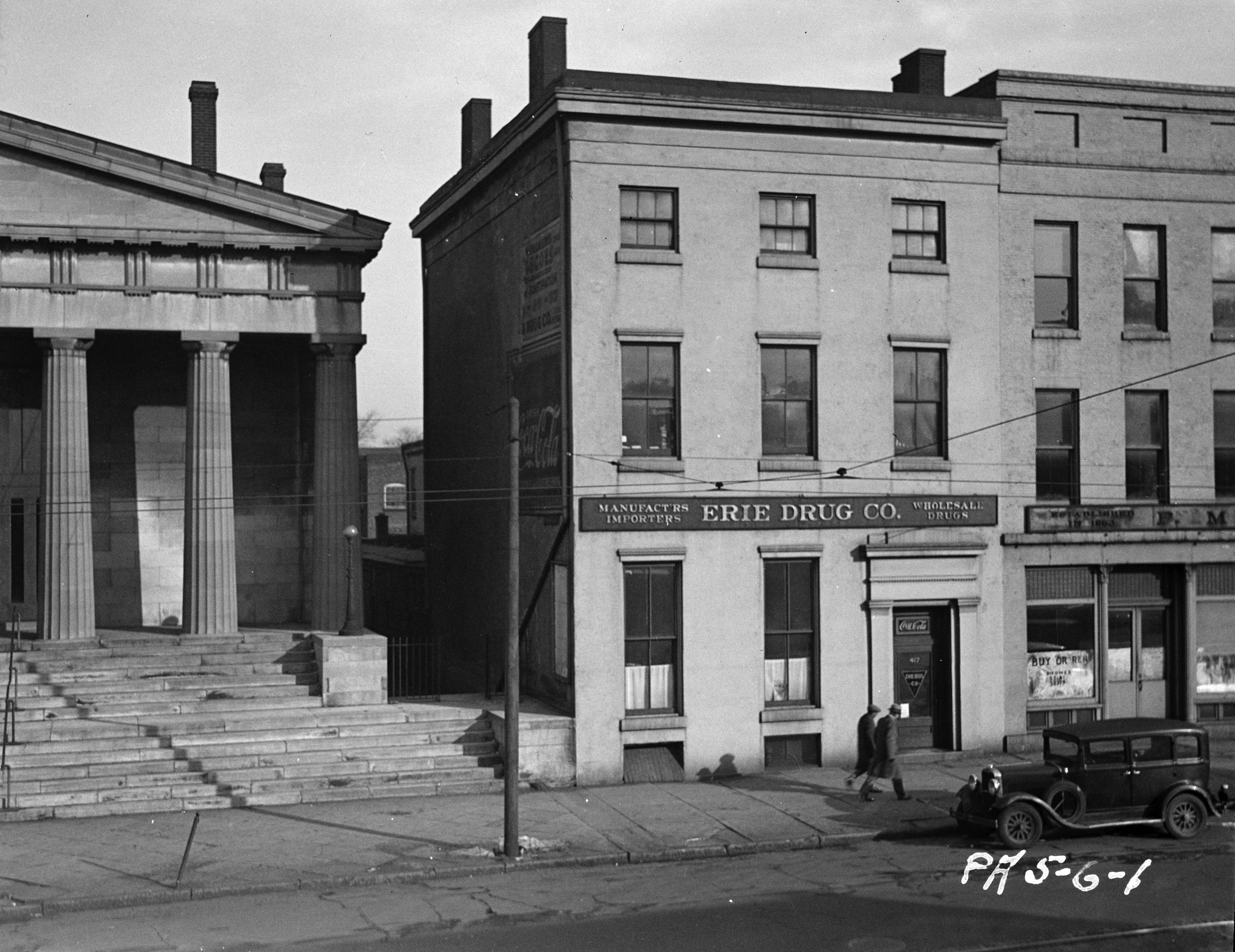 Cashier's House in Erie, Pennsylvania Original number was "HABS PA,25-ERI,3-1", original caption was "West elevation."